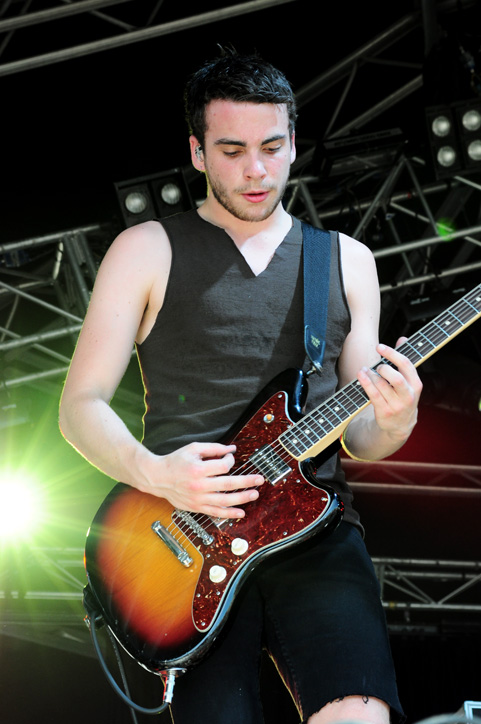 Paramore @ Steel Blue Oval (1/3/2010)